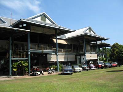 Clearwater Sanctuary Golf Resort Clubhouse, Batu Gajah, Perak, Malaysia